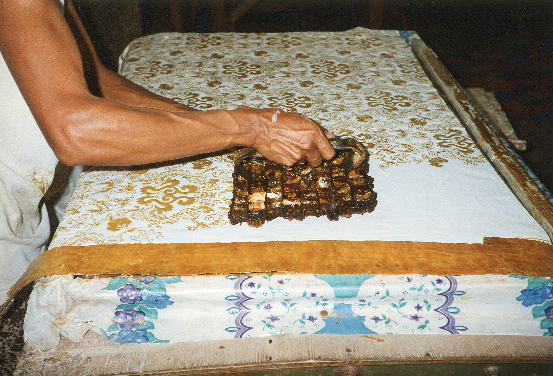 Printing wax-resin resist for Batik with a Tjap, Yogyakarta, 1996